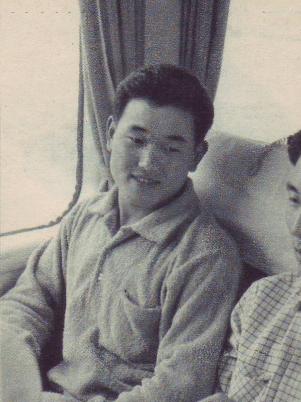 Eiji Bandō. taken in 1959.